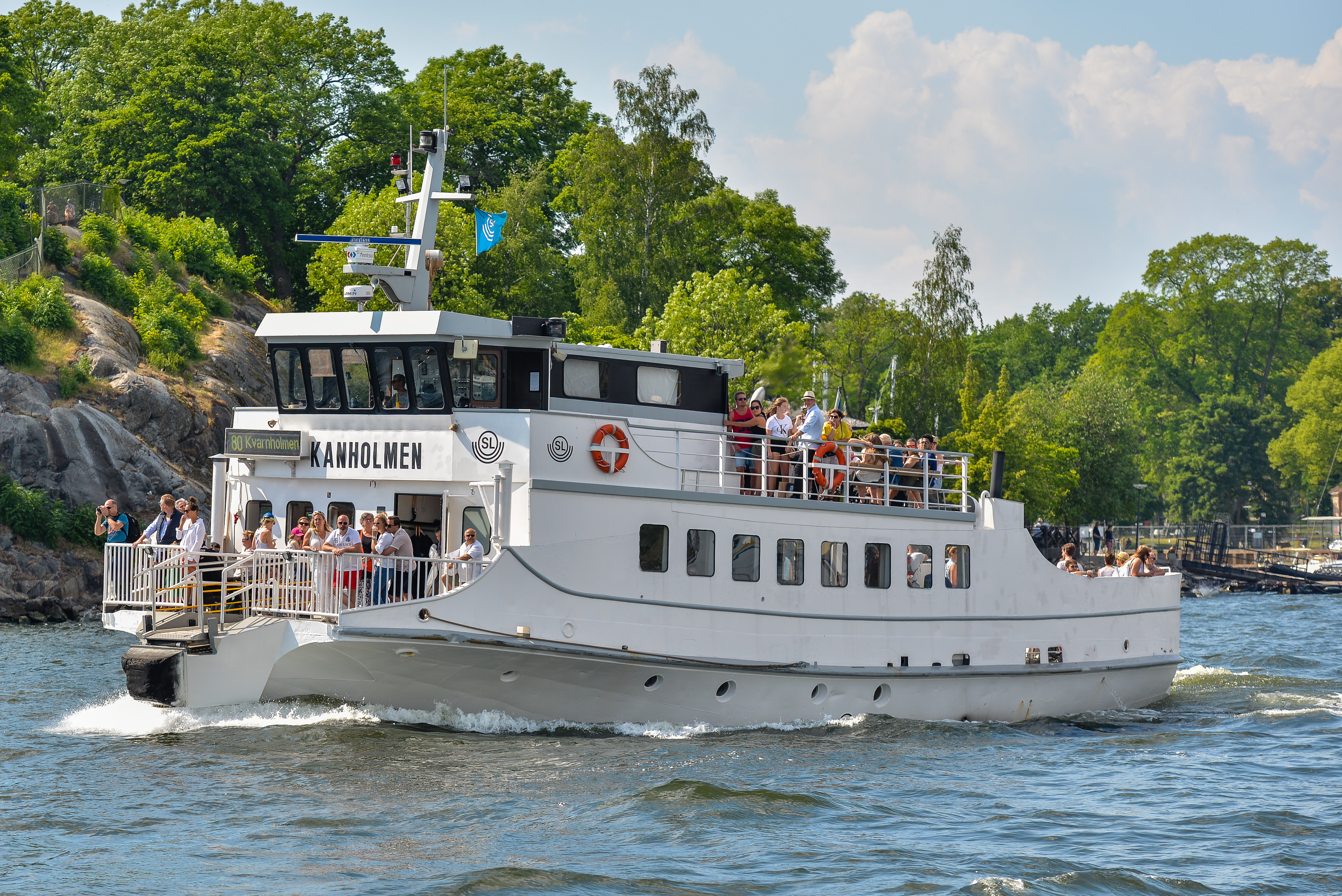 Ferry Kanholmen in Stockholm.